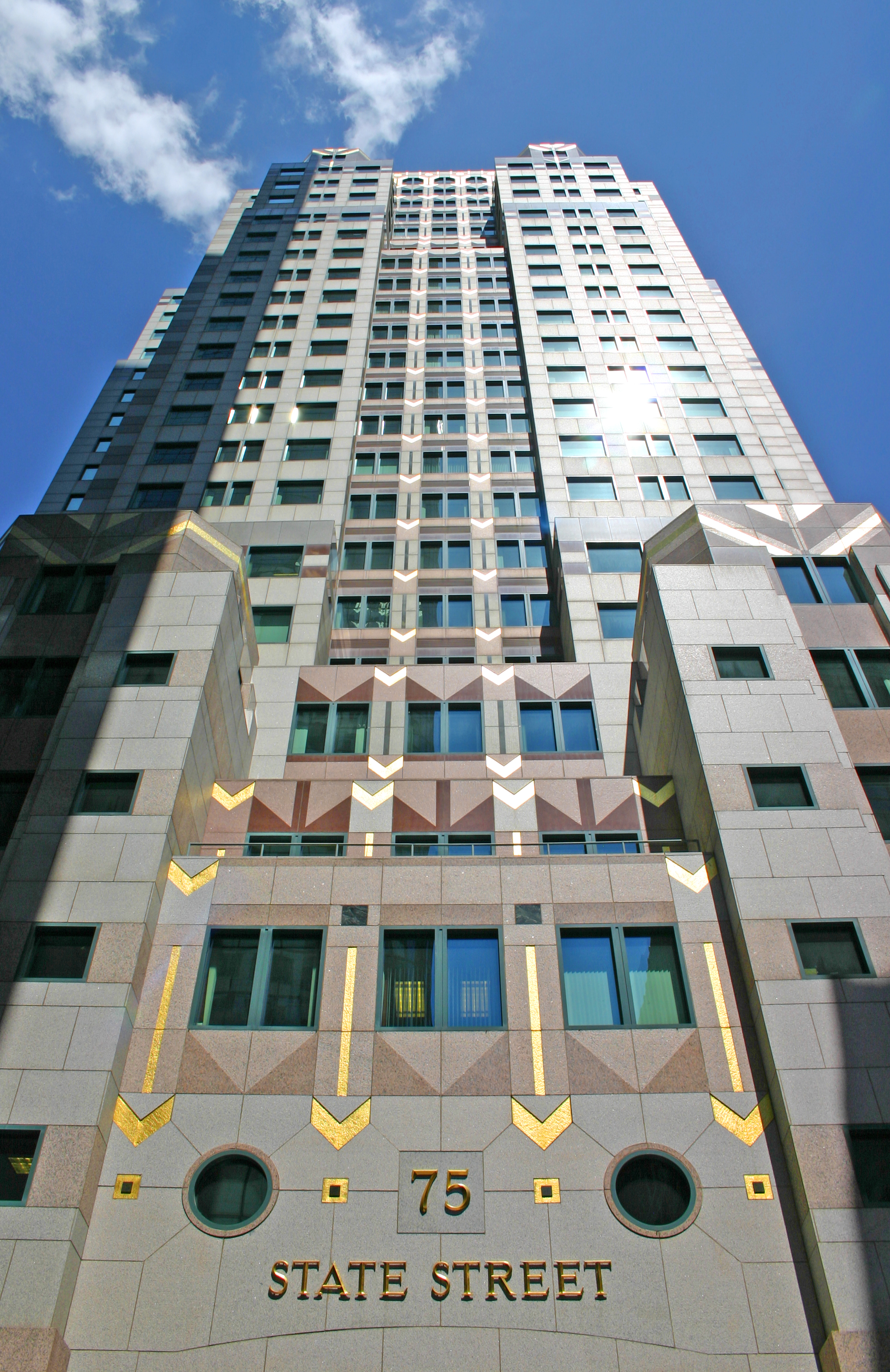 The beautiful art deco 75 State Street building in Boston.